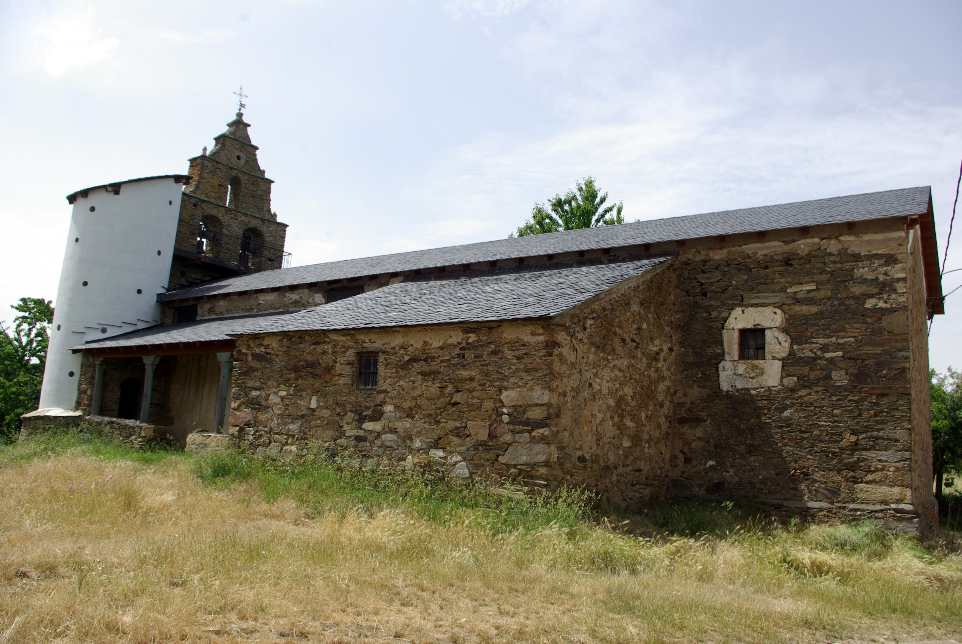 Church in Campo La Lomba (Riello, León, Spain).